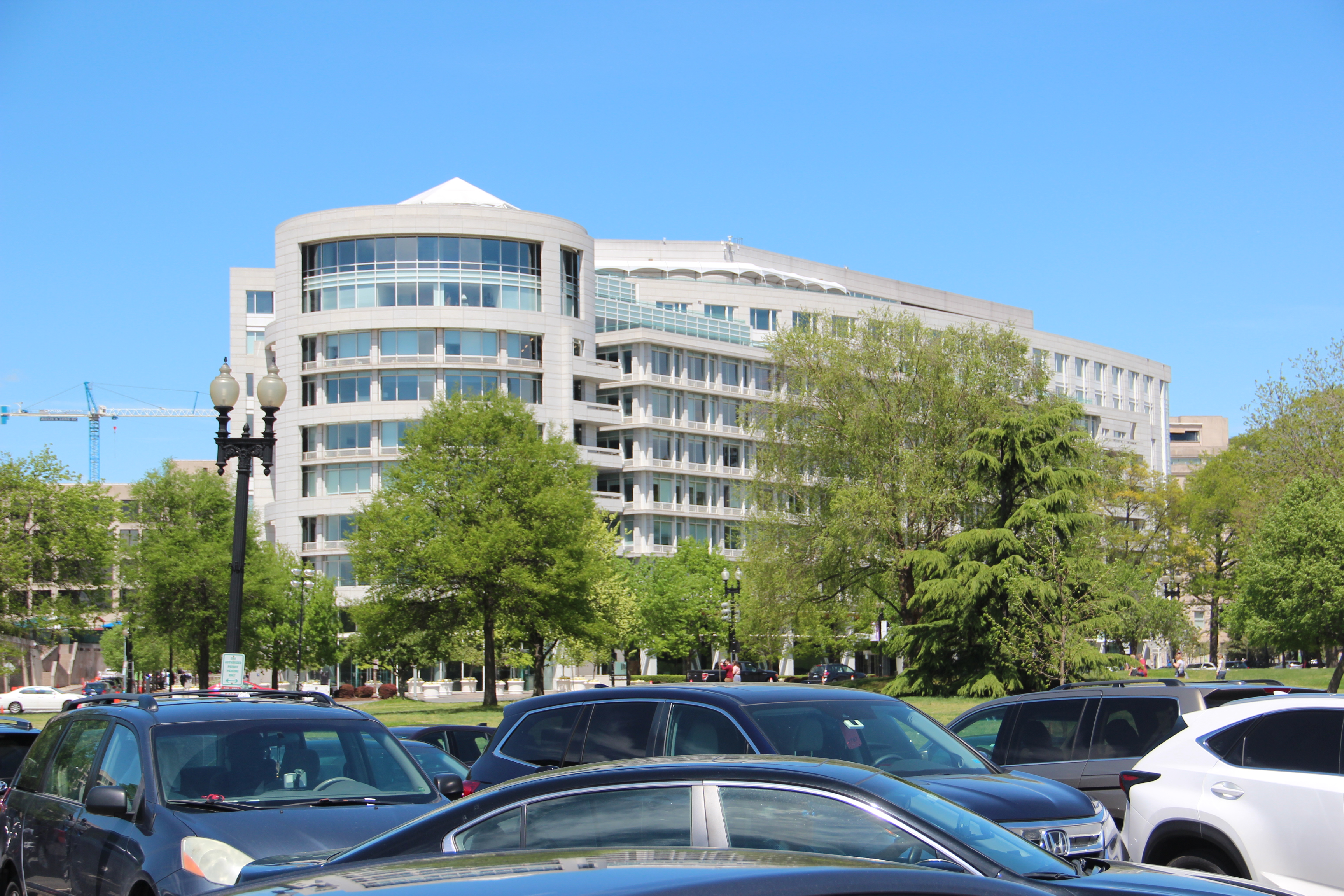 101 Constitution Ave NW, Washington, DC